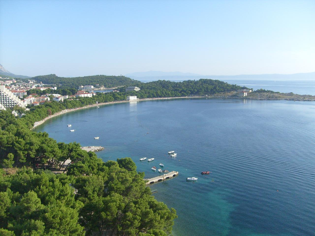 Bay Makarska.